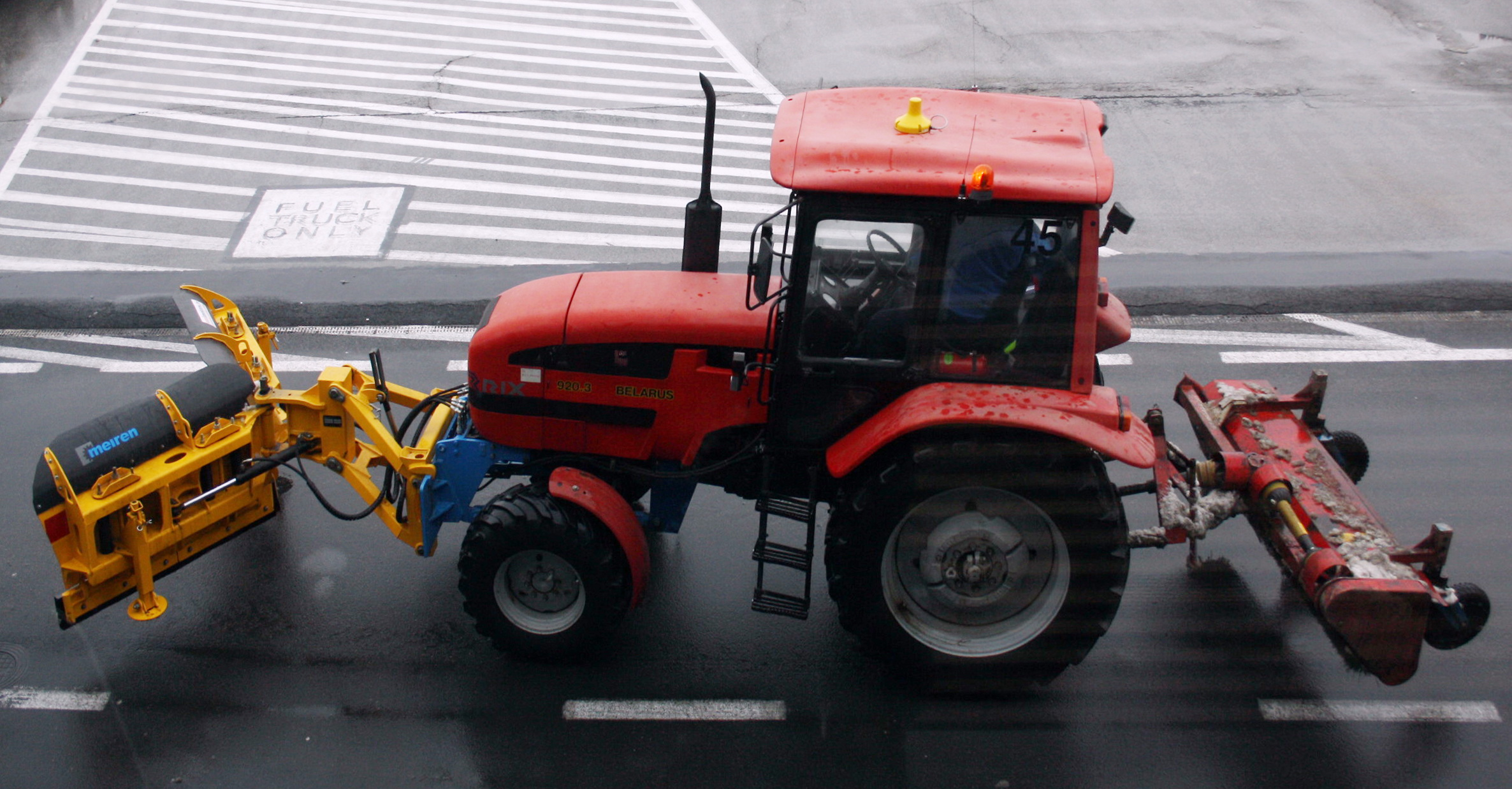 Tractor "Belarus" as a snowplow at the airport in Riga.